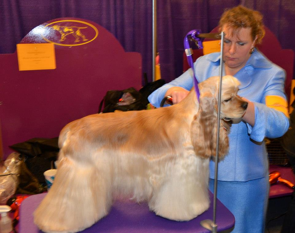 The Westminster Kennel Club 137th Annual All Breed Dog Show February 11-12, 2013 New York, NY